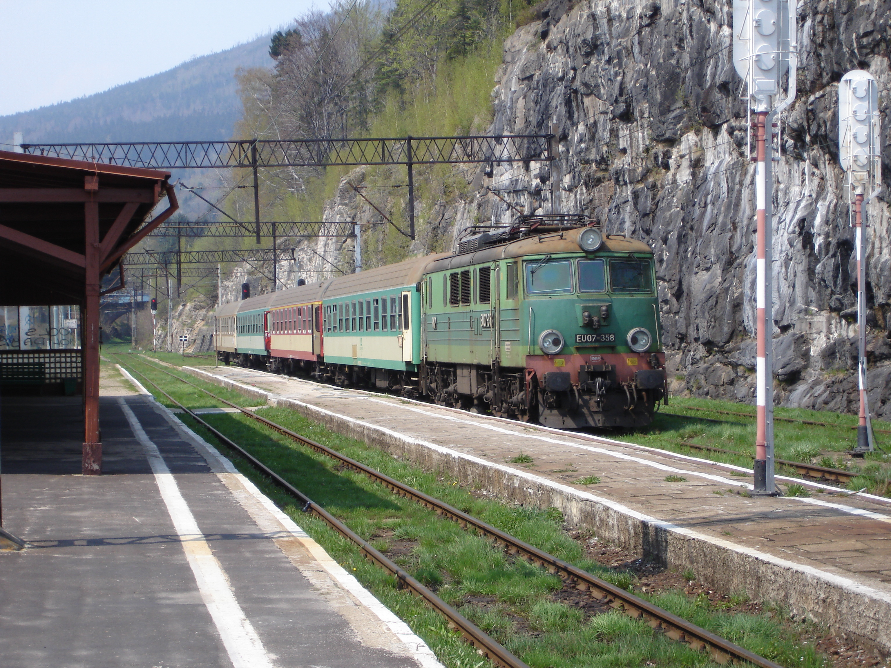 Railway line Jelenia Gora-Korenov: passenger train in station Szklarska Poręba Górna